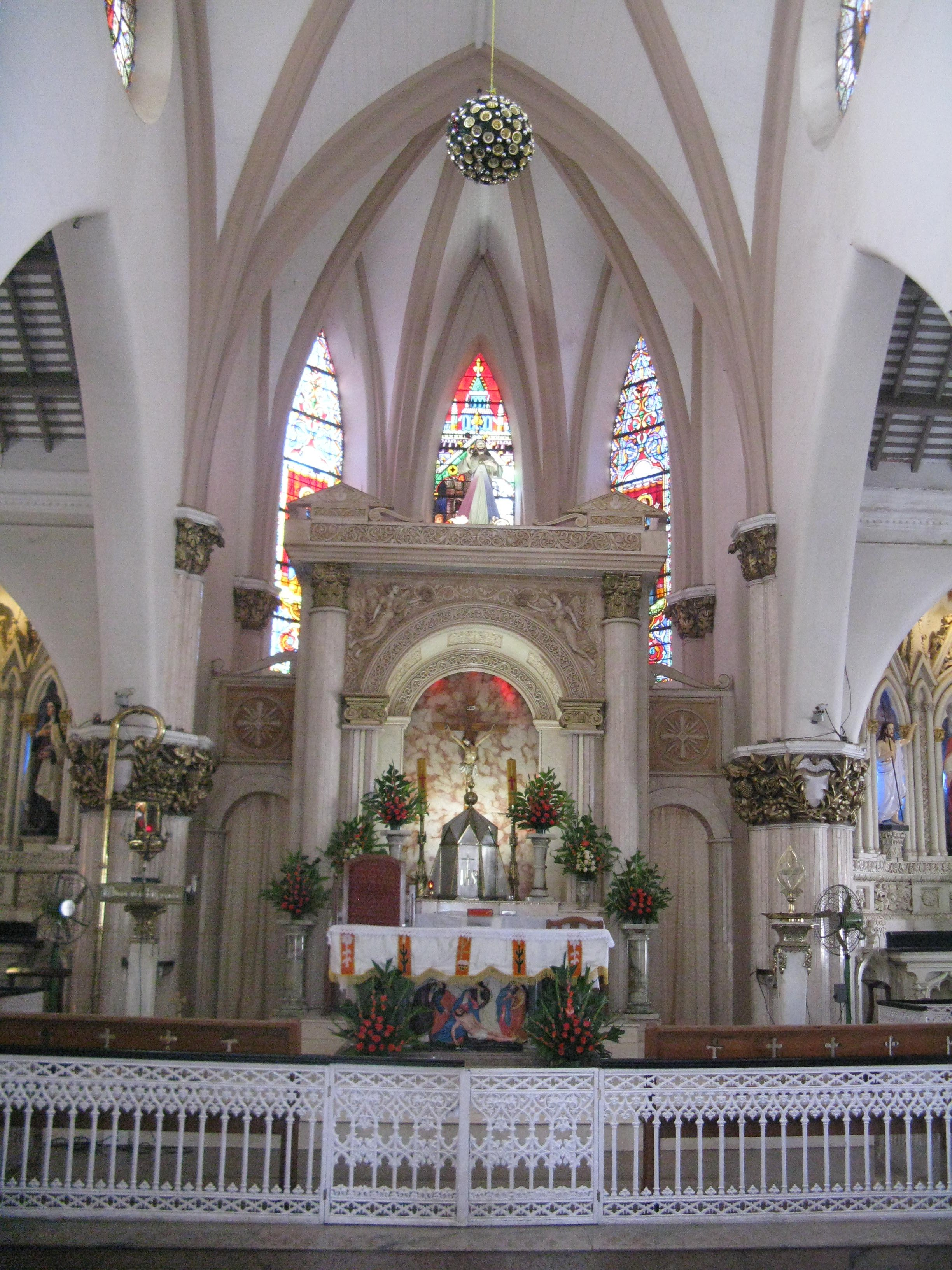 Altar of St.Mary's Basilica,Sivaji Nagar,Bangalore